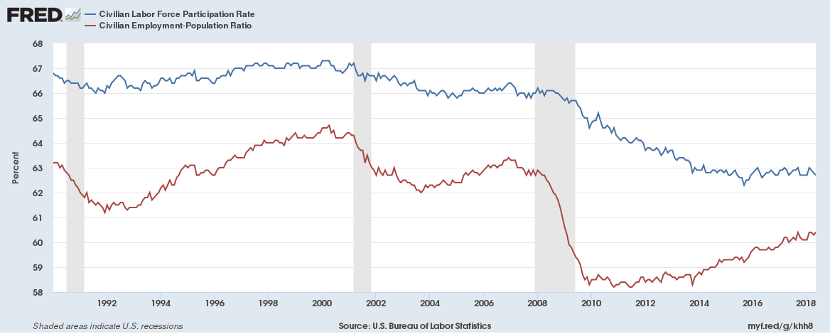 Labor force and employment to population ratios. The population used by the government ("civilian non-institutional population") is a proxy for working-age persons and is a partial measure of the entire U.S. population.